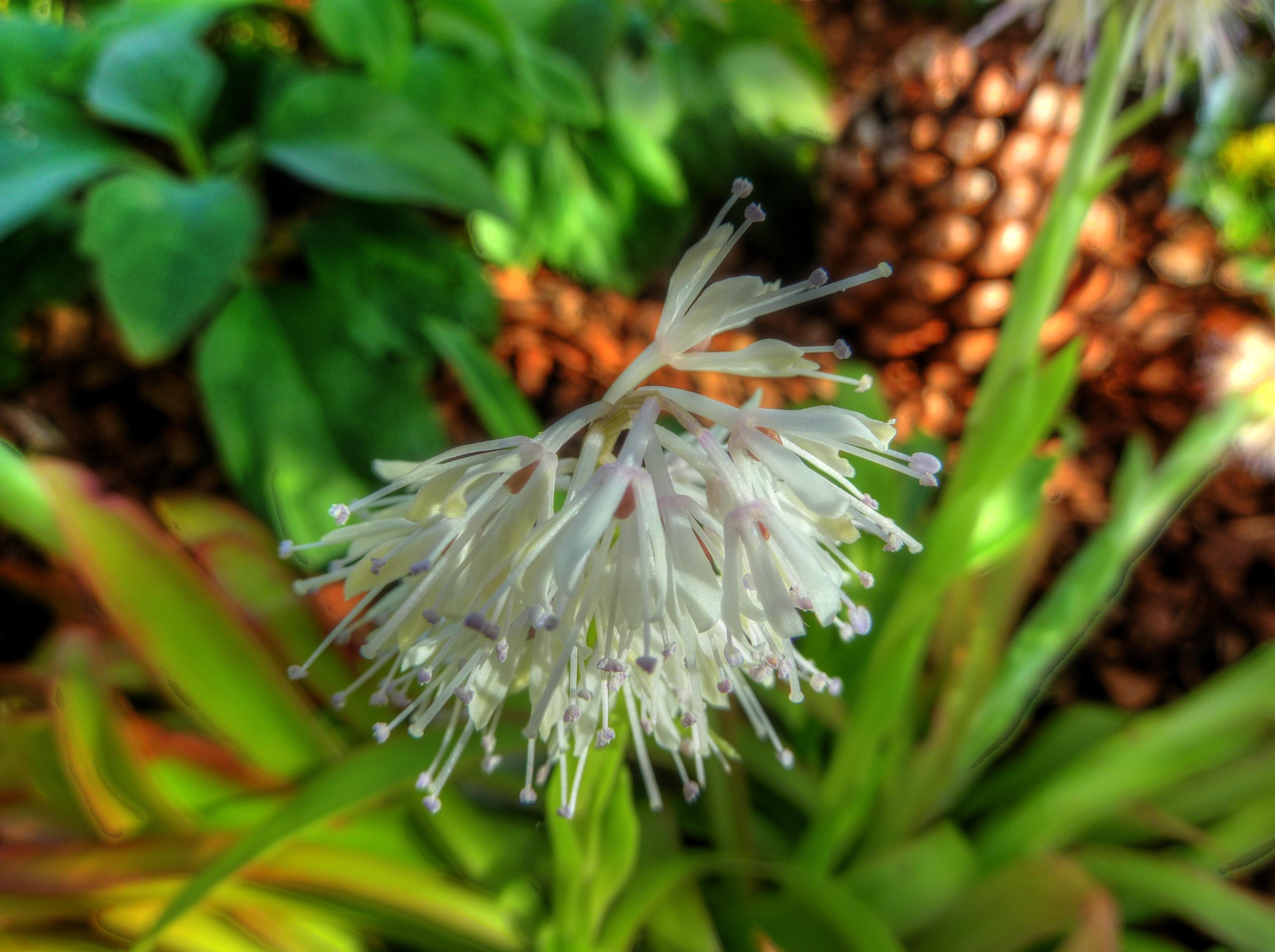 Taken in the Cambridge University Botanic Garden.